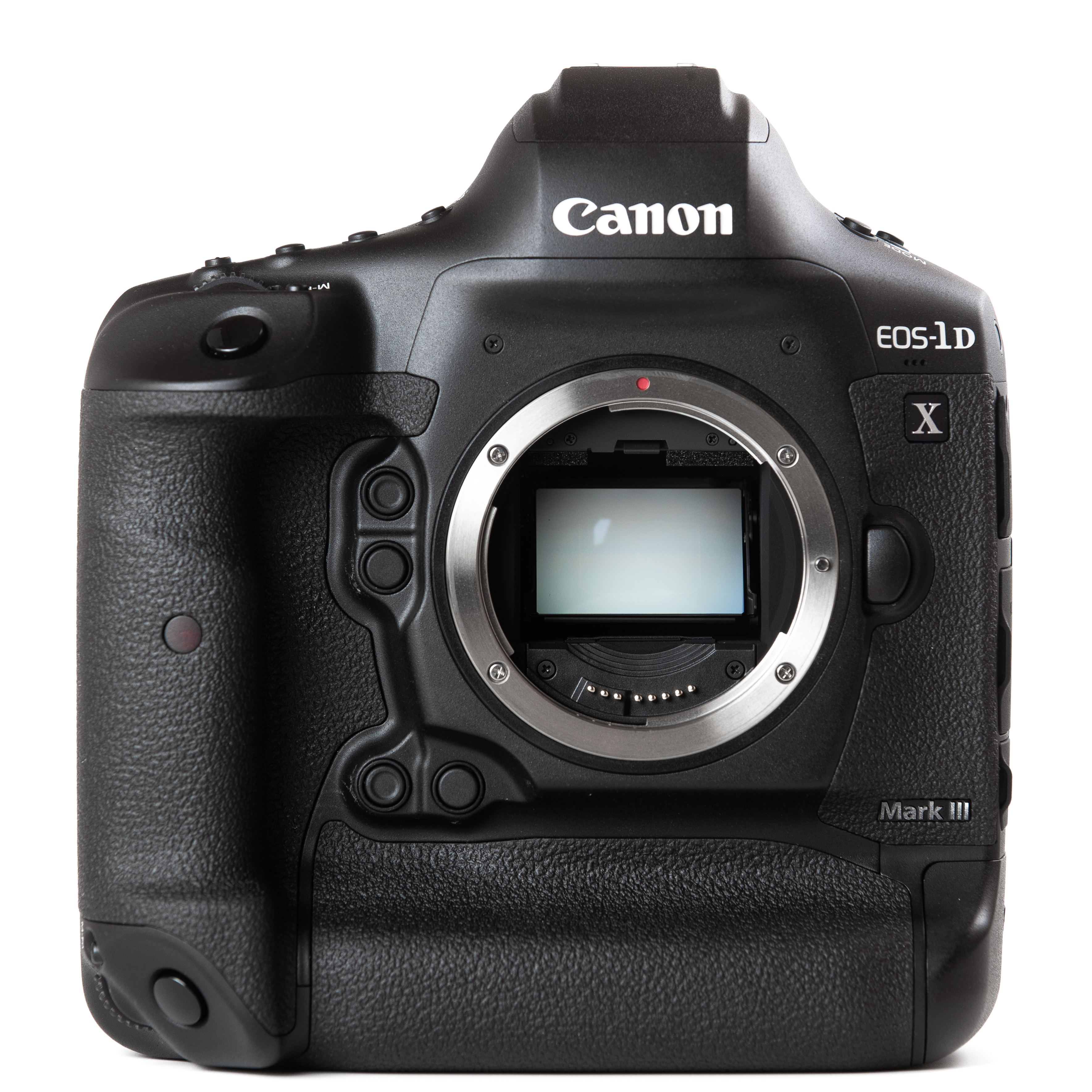 The Canon EOS-1DX Mark III is seen in studio shots, Wednesday, July 8, 2020. The camera is Canon's flagship DSLR for 2020.